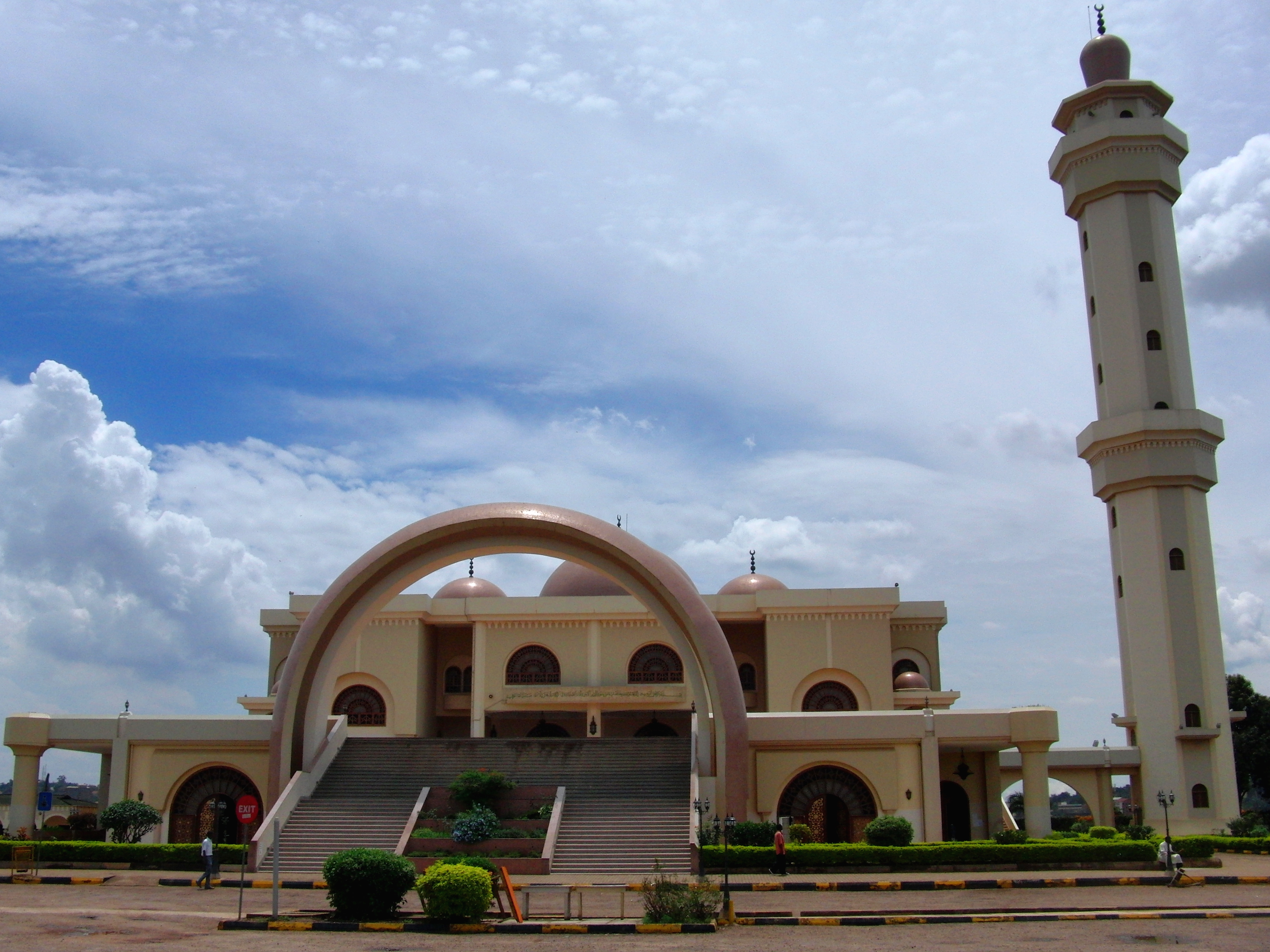 Outer view of Uganda's national mosque in the capital Kampala.